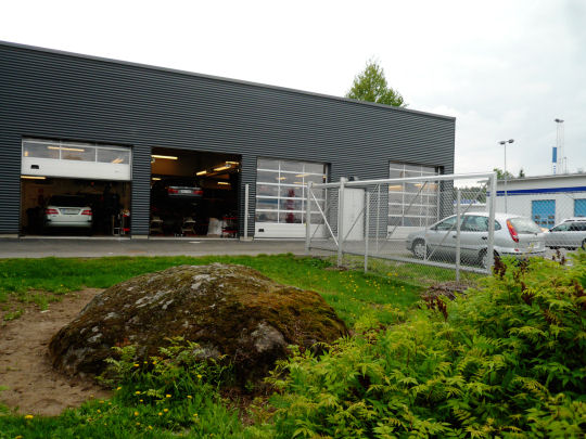 Uhrikivenkatu 11 sacrificial stone at Kauriala, Hämeenlinna, Southern Finland. The stone was removed from its original place (in the photo) in 2010.